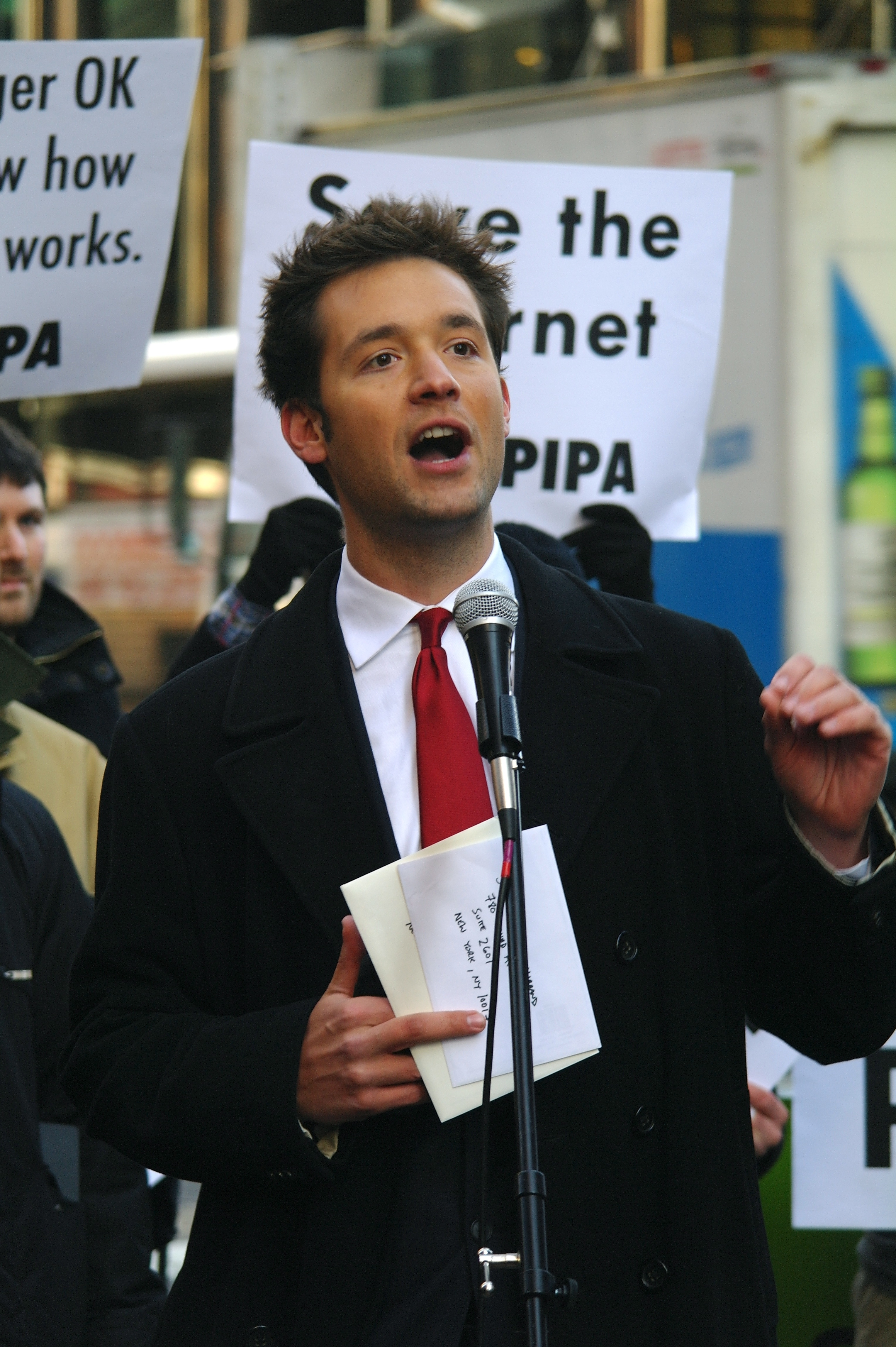 Alexis Ohanian